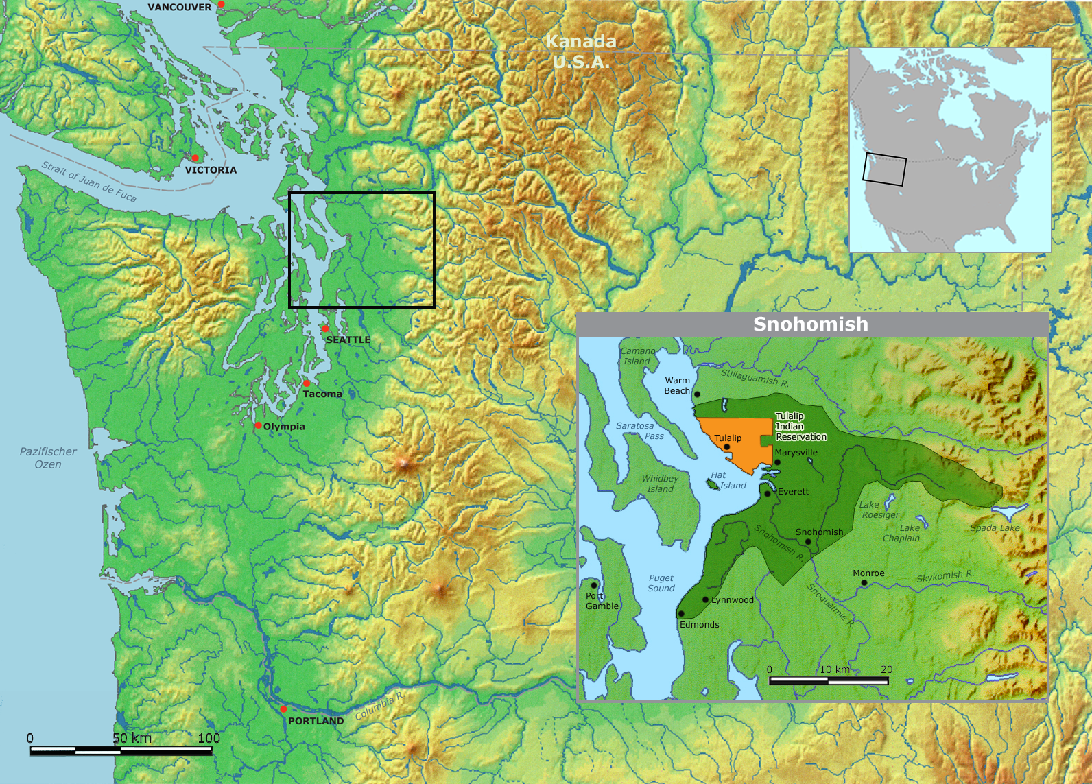 Map of traditional Snohomish tribal territory and present-day reservation